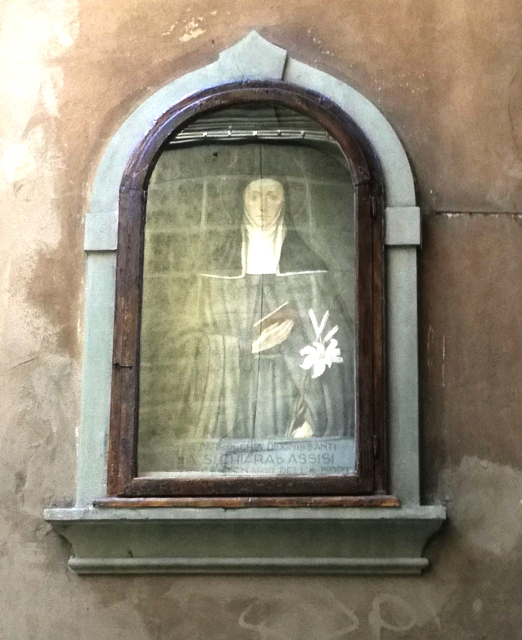 Tabernacolo di via del Porcellana